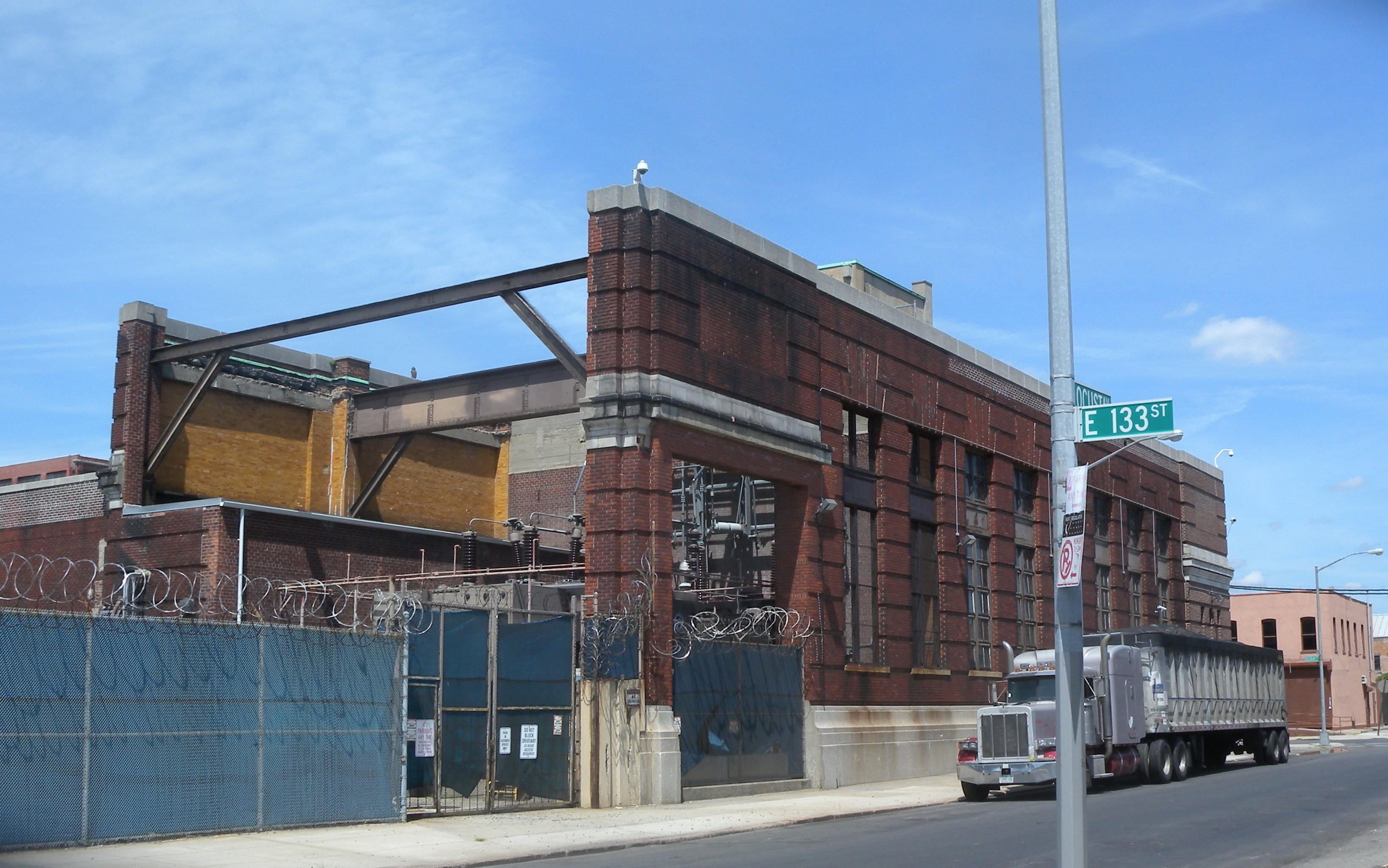 Looking north across Locust Avenue and East 133rd Street at small power substation on a sunny midday.